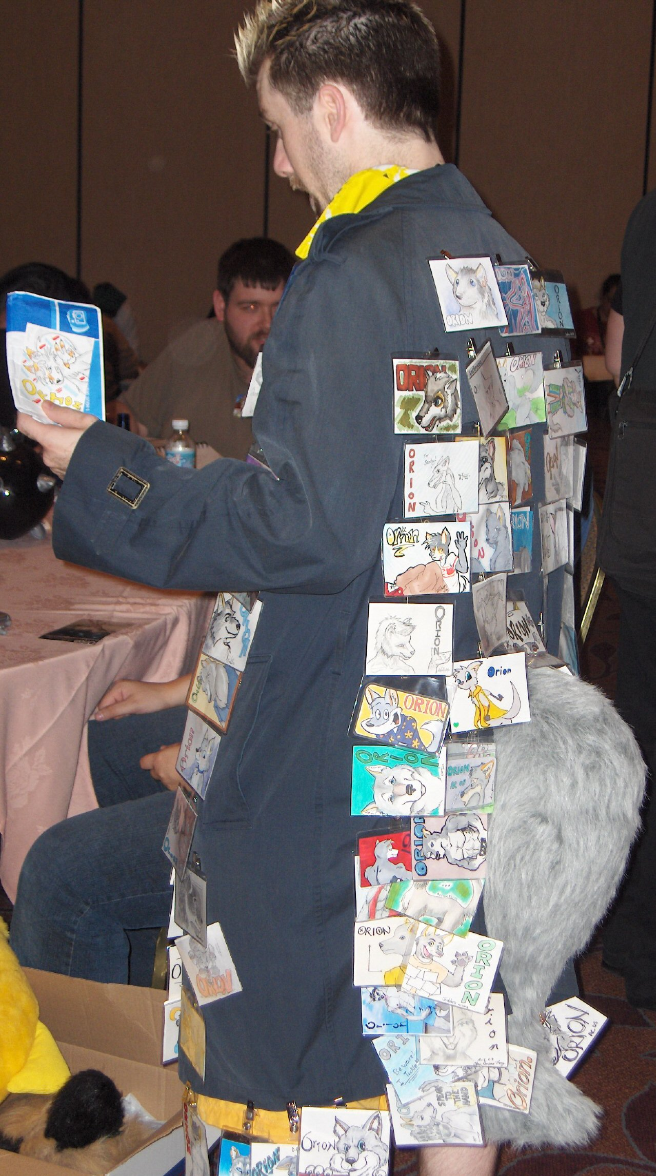 Orion's collection of convention badges, as displayed at Anthrocon 2006, a popular furry convention.